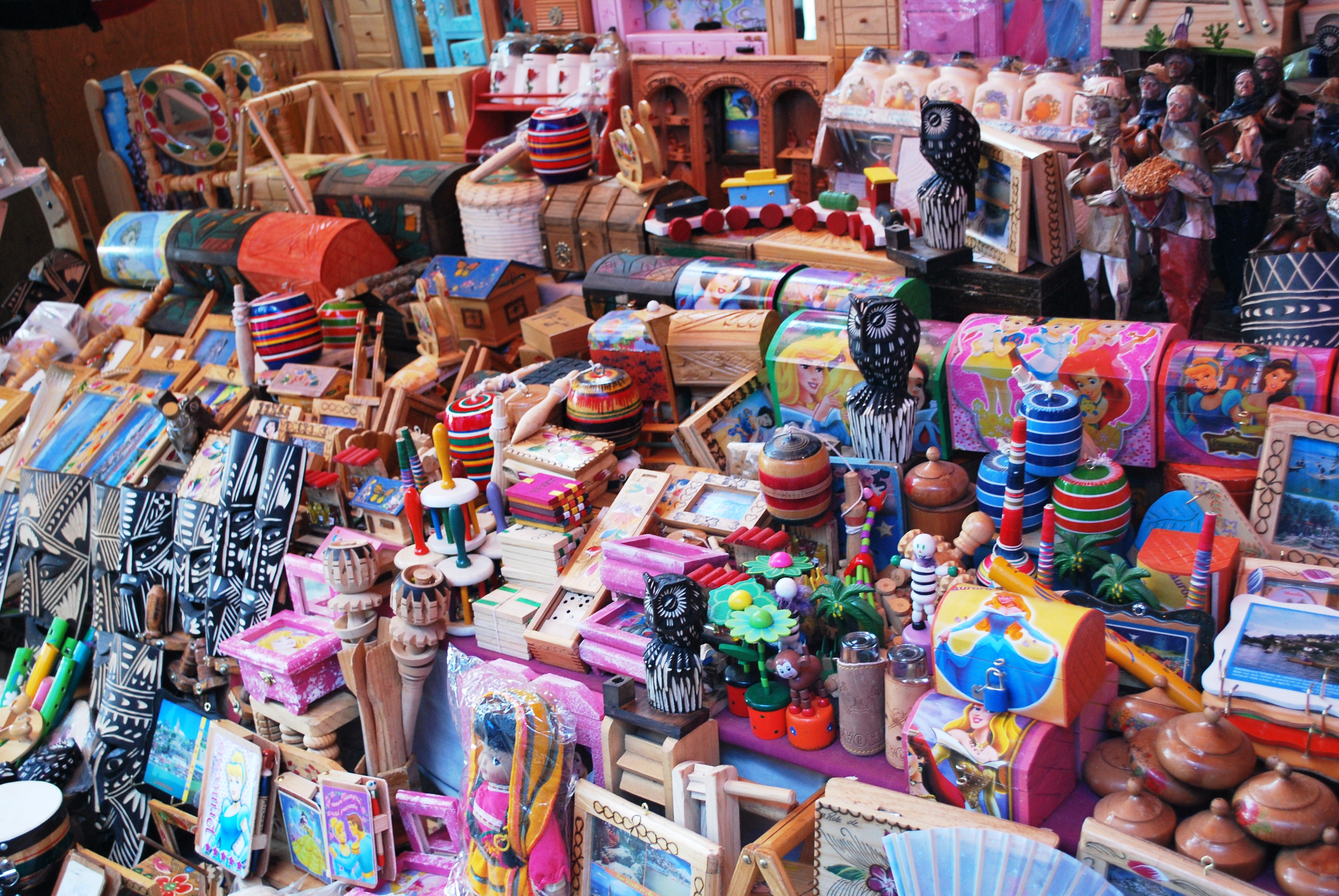 Wood crafts for sale on Janitzio Island in Lake Patzcuaro Michoacan